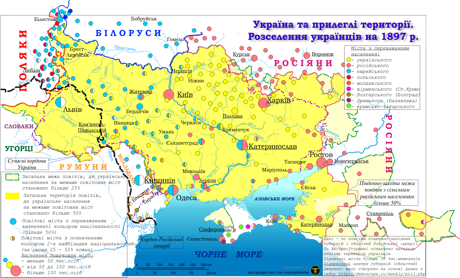 The settling of Ukrainian cities and counties in the southwest of the Russian Empire by the 1897 census.